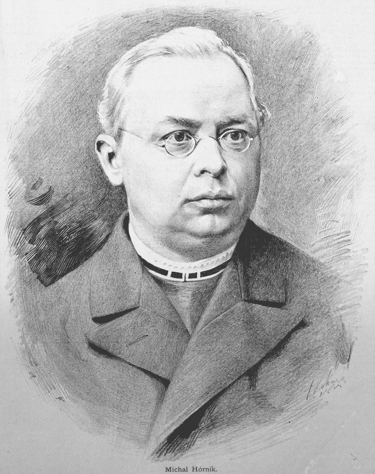 Portrait of Michał Hórnik, Sorbian writer and editor from Lusatia (present-day Saxony, Germany).